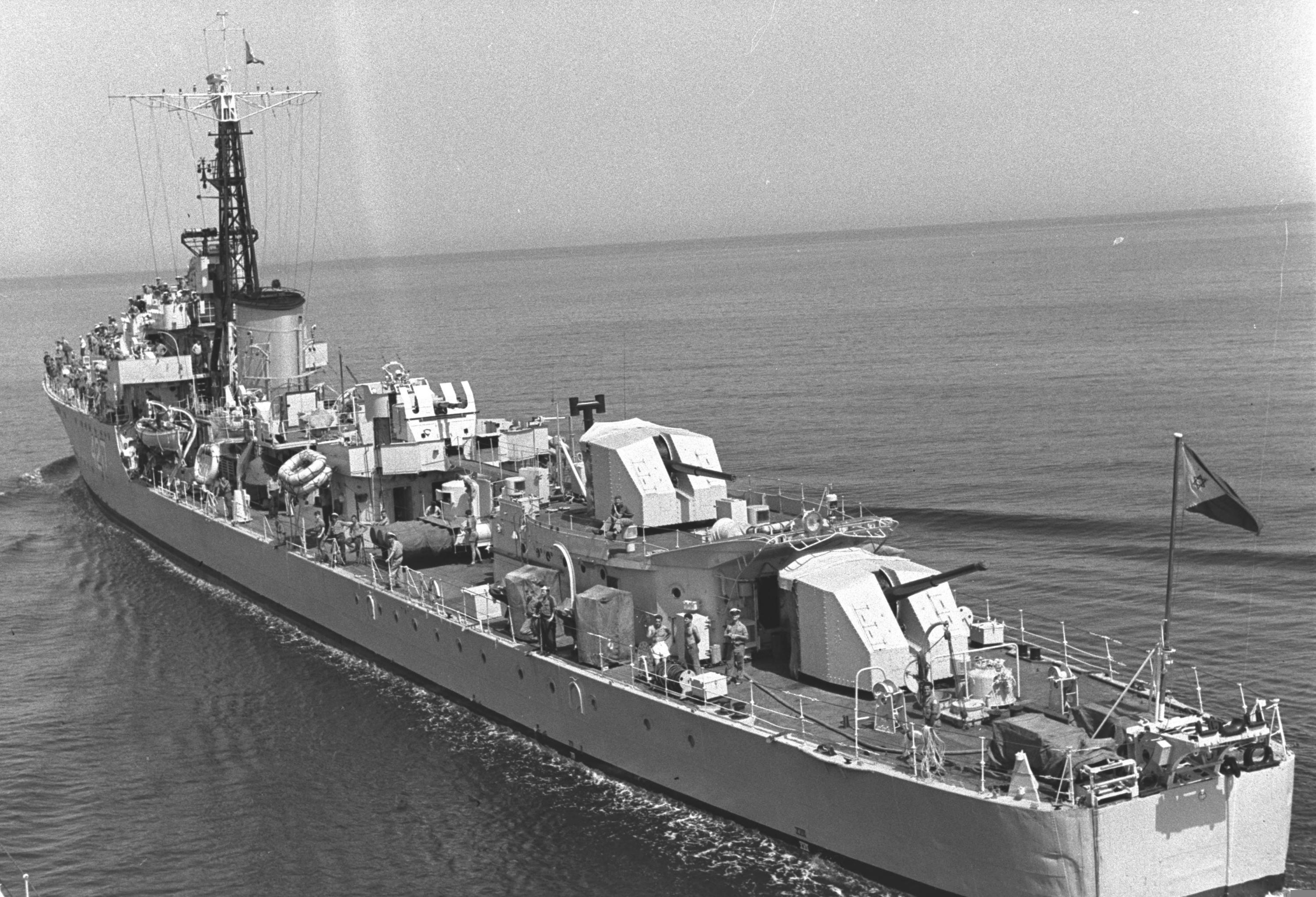 RETURNING HOME, AFTER THE GREEK VOYAGE.